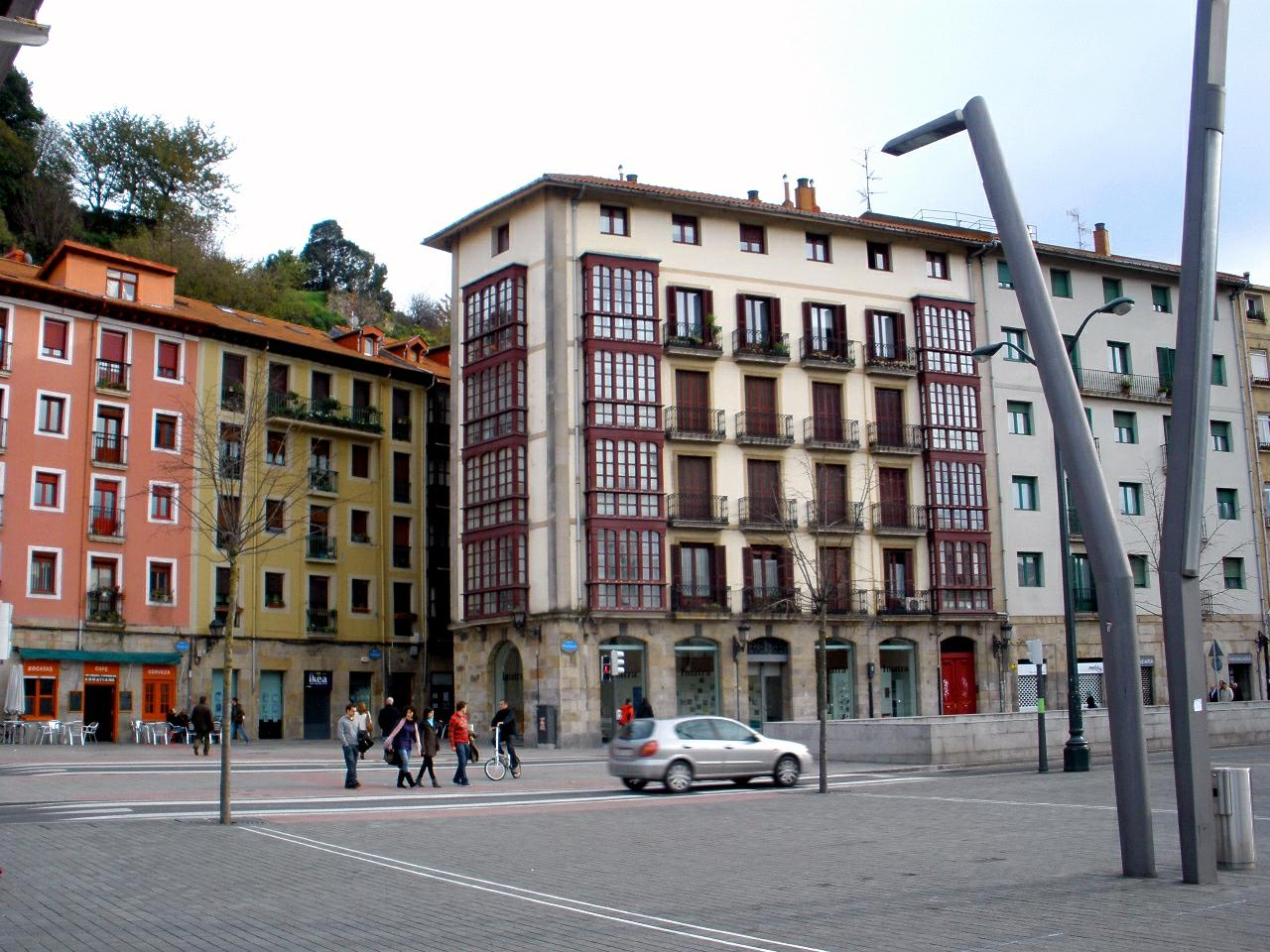 Aspecto de la Calle Sendeja de Bilbao (País Vasco, España)